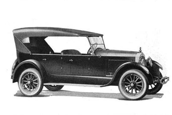 Handley-Knight Model B 7-passenger Touring 1922. Illustration from 1922 data sheet